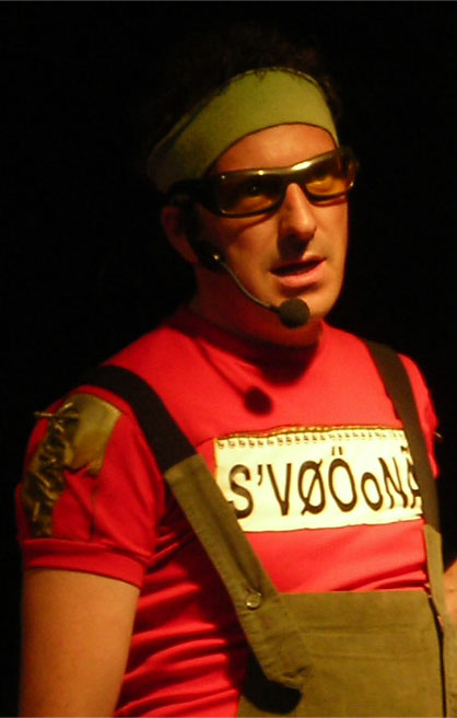 Enrique Balbontin